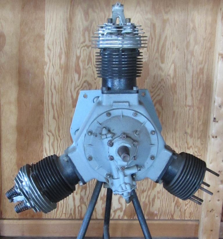 Sekely Radial